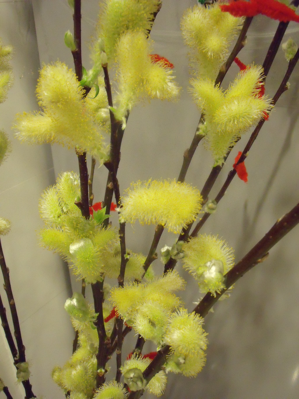 Pussy Willow found in David's home.